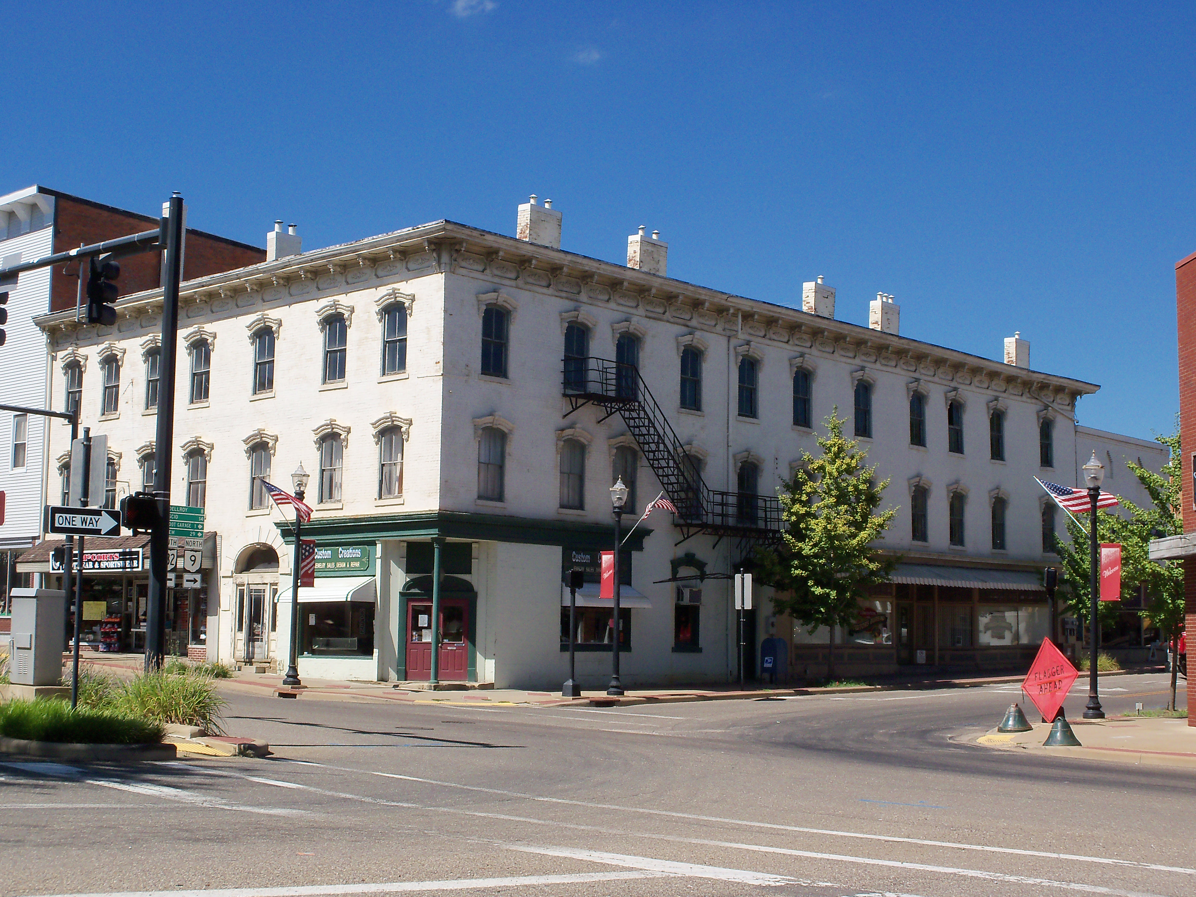 Van Horn Building, a building on the National Register of Historic Places in Carroll County, Ohio.